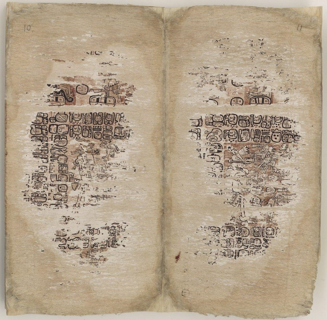 Pages 10-11 of the Paris Codex, a Postclassic Maya book.